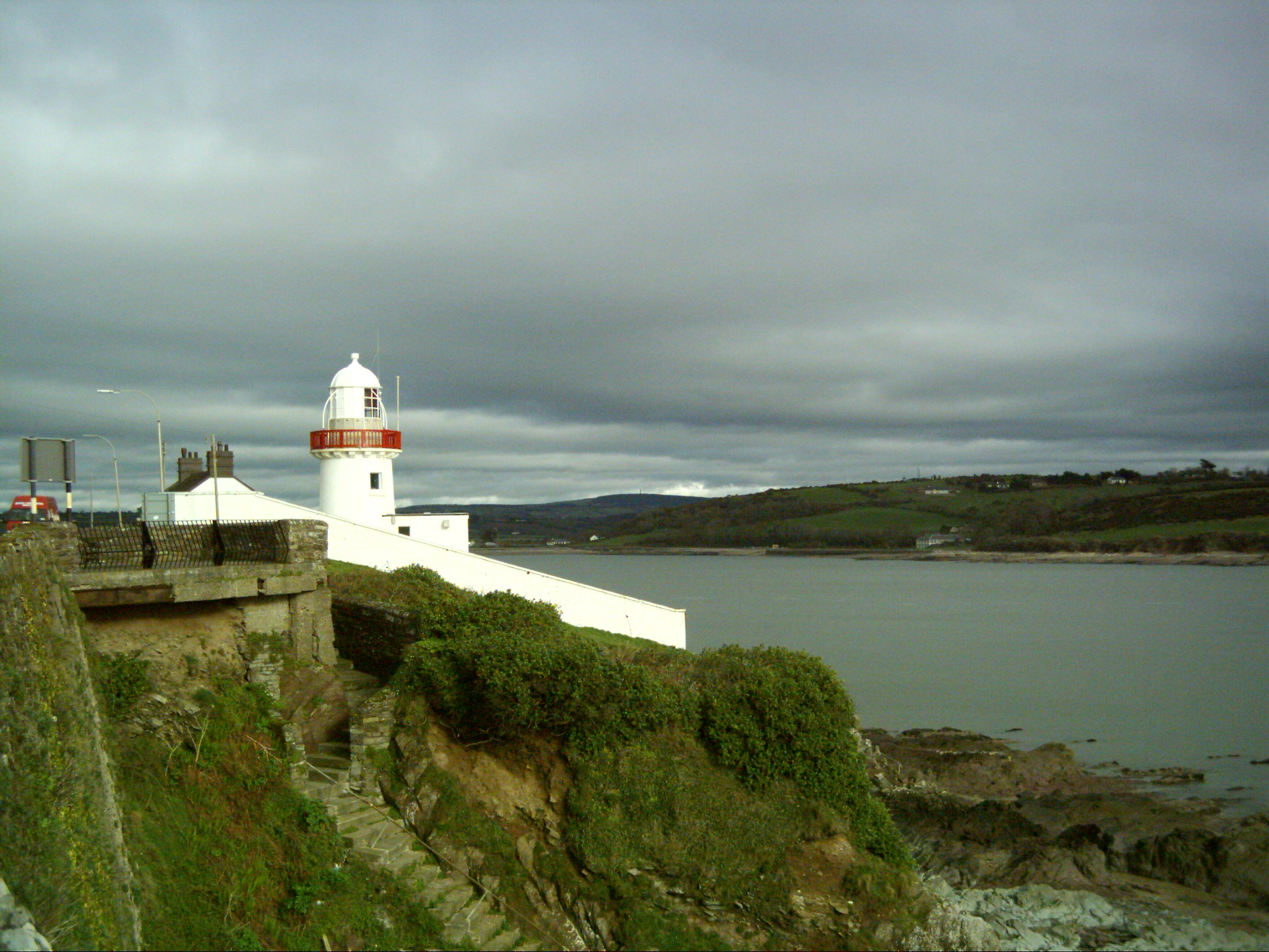 This is a picture I took before and had under my old Flickr profile. It's Youghal lighthouse in Co. Cork. Taken with my last camera.